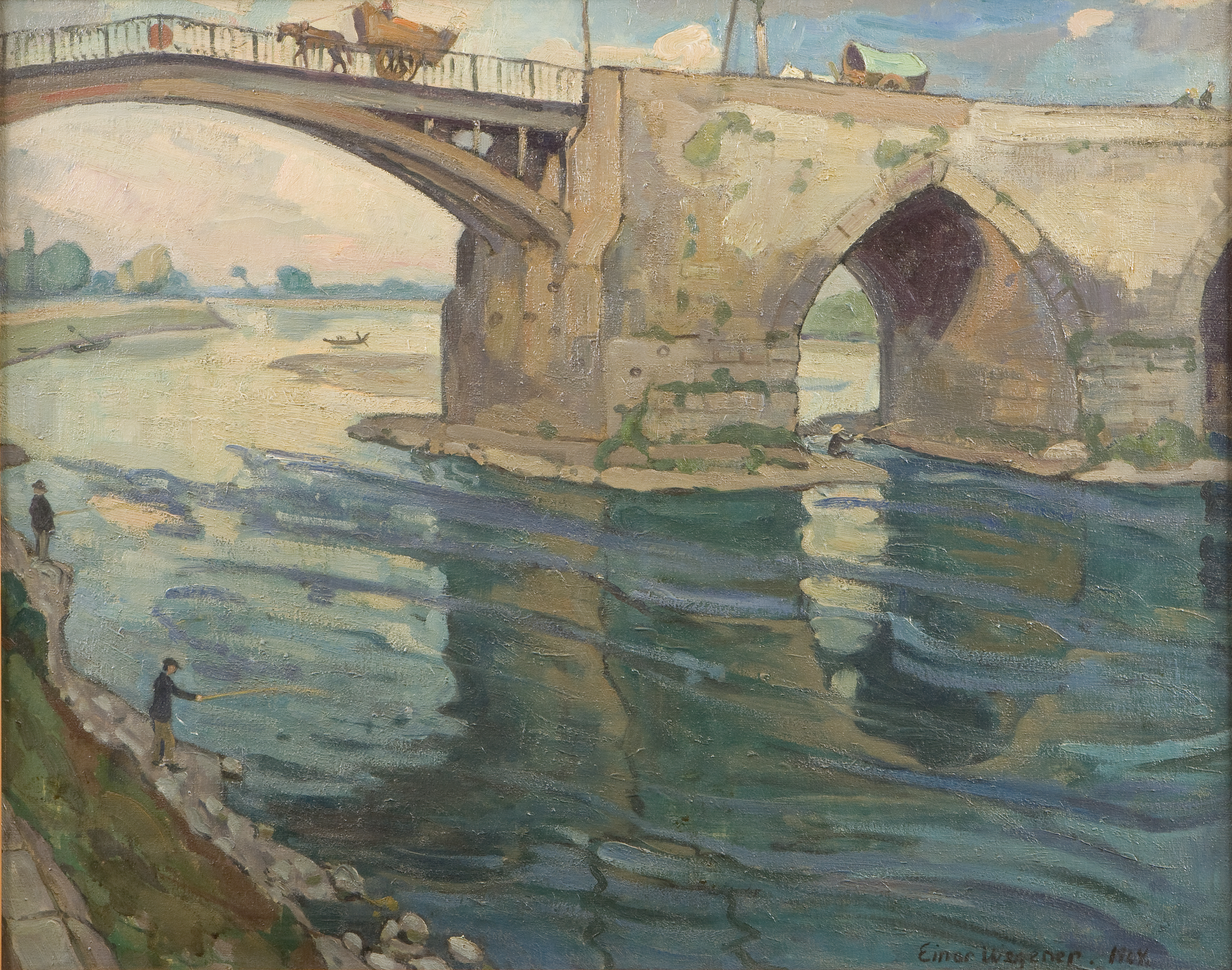 Martslandskab, painting by Danish artist Alfred Simonsen.